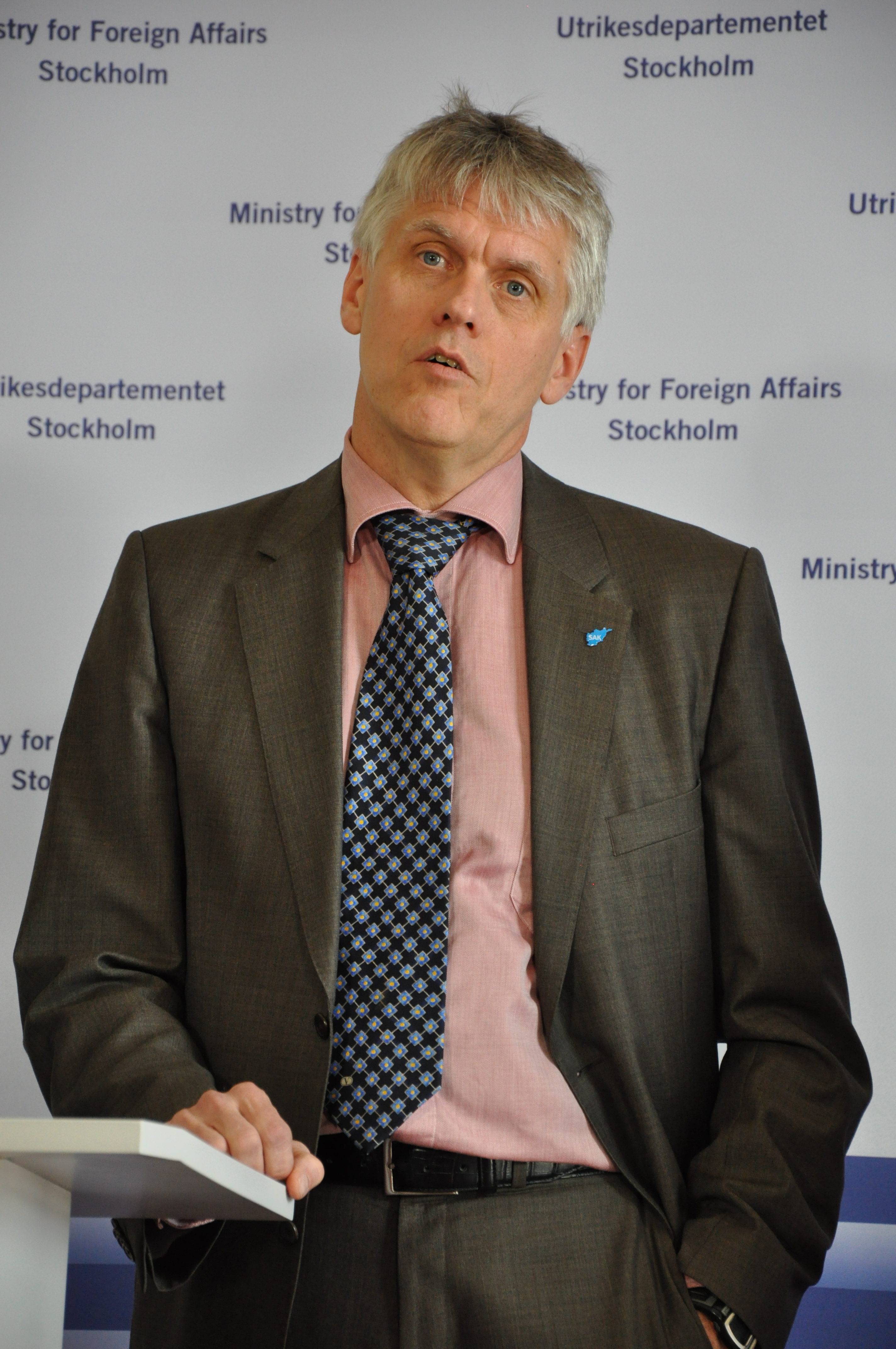 Torbjörn Pettersson, at the presentation at the Foreign Ministry in Stockholm, when he was appointed Ambassador to Afghanistan. 20-may-2010